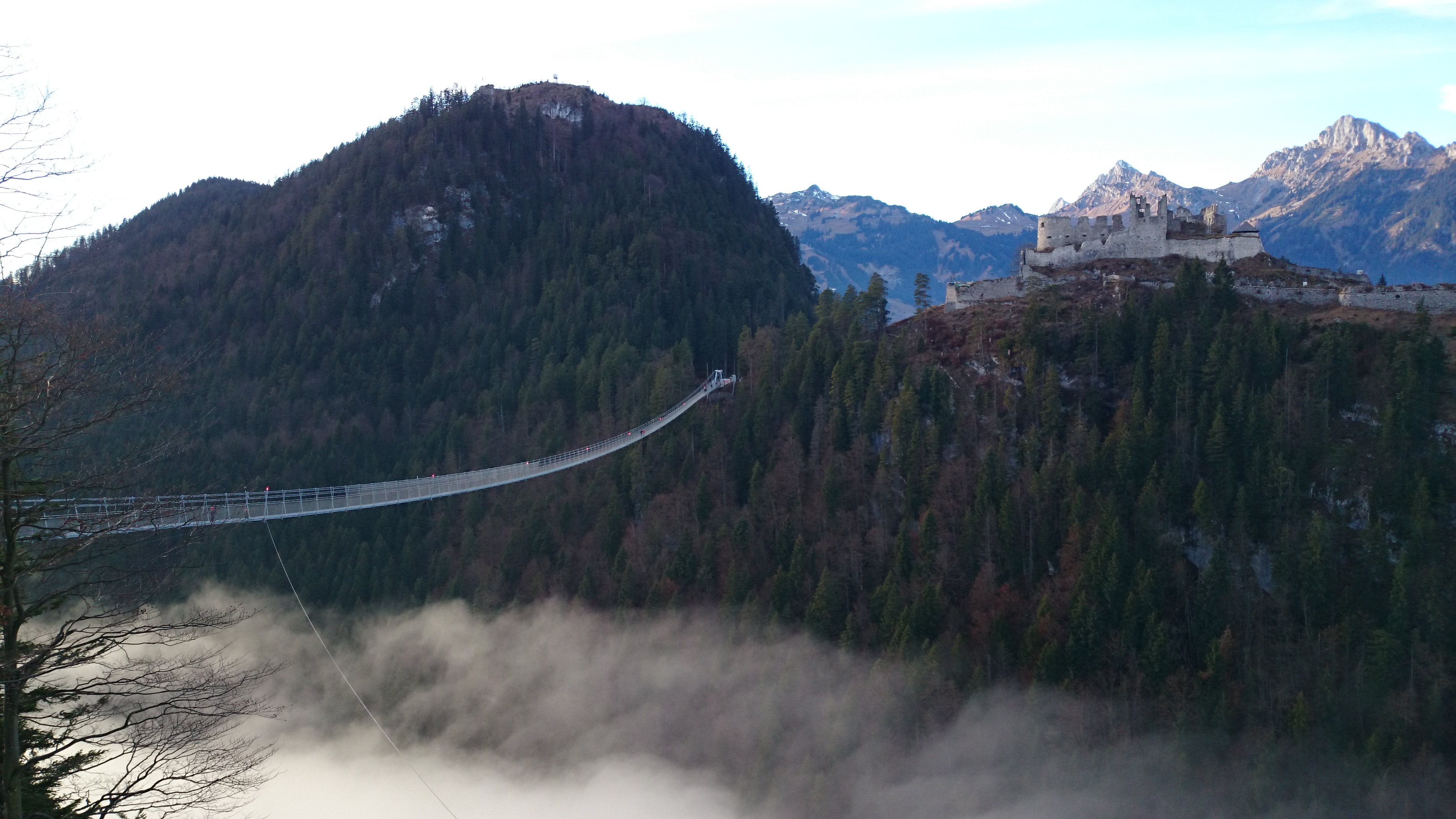 Long footbridge highline179 with fog in the valley. Grey mountains Köllenspitze and Gehrenspitze behind the ruins of castle Burg Ehrenberg.